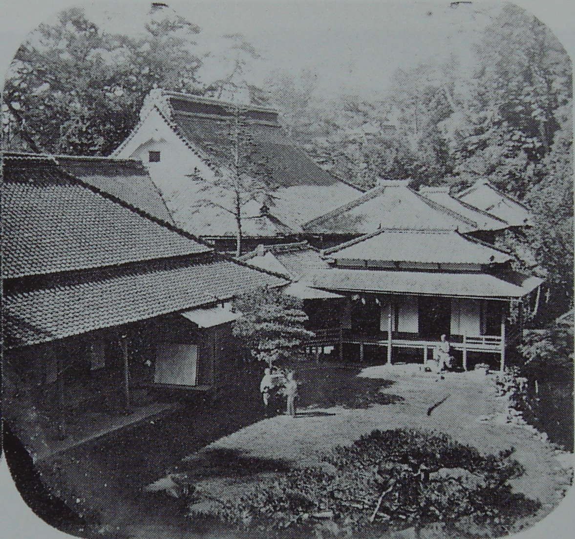 Tozenji by Beato, 1860s (First British Legation in Tokyo)